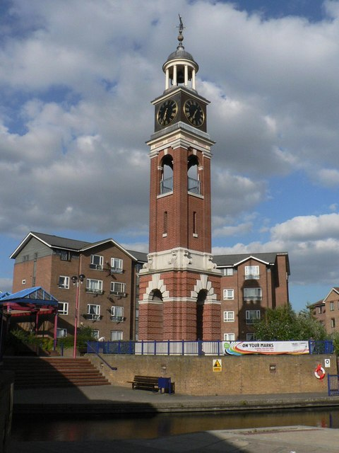 Thamesmead: clock tower The clocktower alongside a little stream in Joyce Dawson Way, the pedestrianisted central shopping area of Thamesmead.